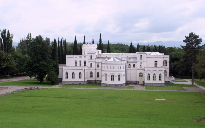 Palace of Mukhranian Bagrations